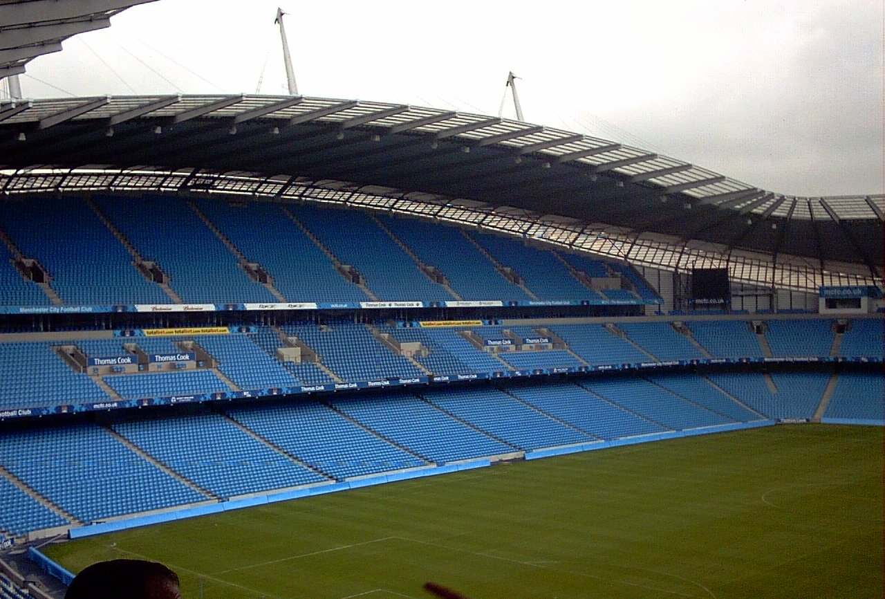 View of the East Stand at the City of Manchester Stadium